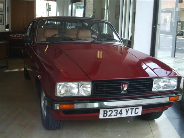 1984 Bristol Britannicia This 5.9 litre V8 car is for sale in the show-room, but due to the fact that it was originally owned by HRH King Hussein of Jordain, the price may be slightly excessive for the average purchaser. He died at the relatively young age of 63 due to cancer. One of his hobbies was ham radio and an additional antenna mount can be seen on the car so he would have operated mobile in this vehicle. He held the call-sign JY1